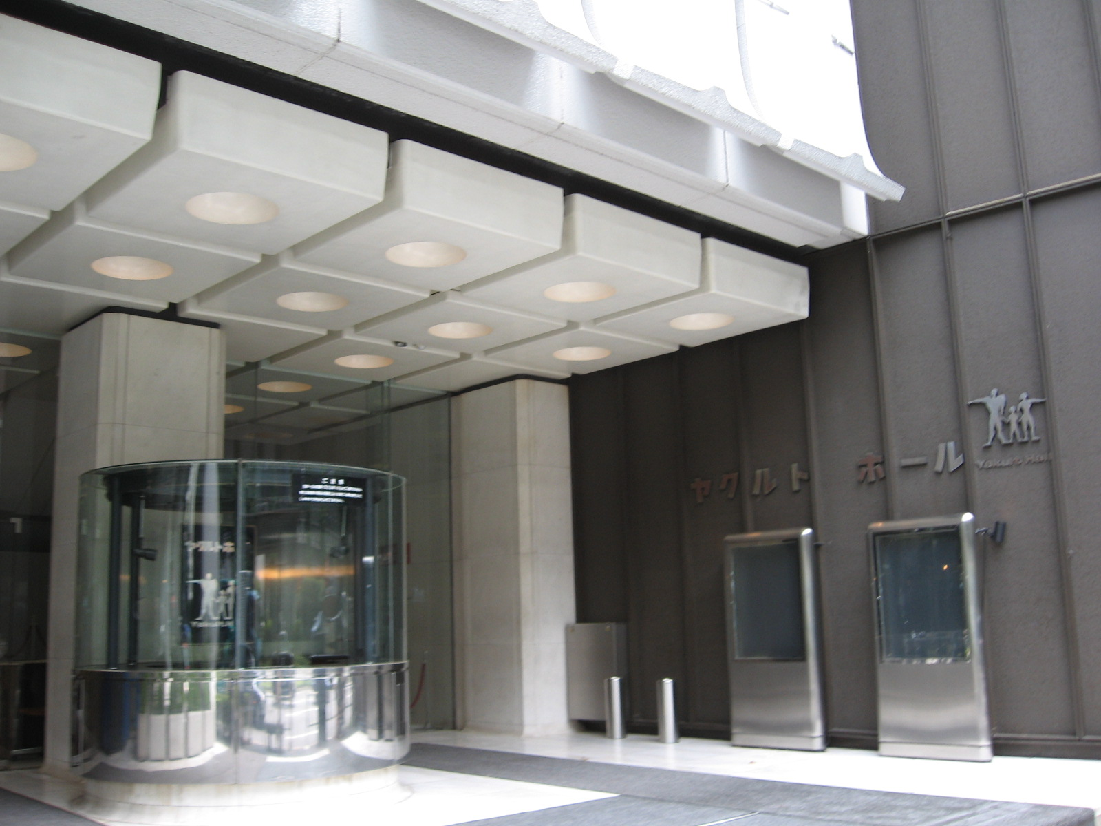 Yakult Hall from Shinbashi Tokyo.